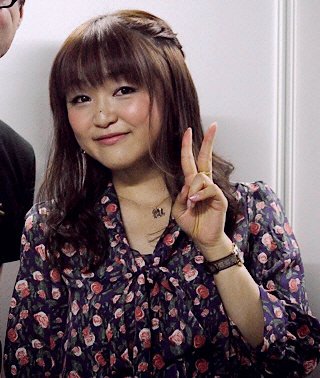 Saito Chiwa at Anime Festival Asia 2011.